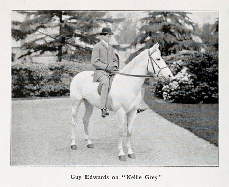 Guy Janion Edwards (1881–1962), son to Arthur Janion Edwards and Hilda Margaret, his wife, in Leaves from a Hunting Diary in Essex (1900). Guy Edwards was an English cricketer active in 1907. His brother was Arthur Noel Edwards.